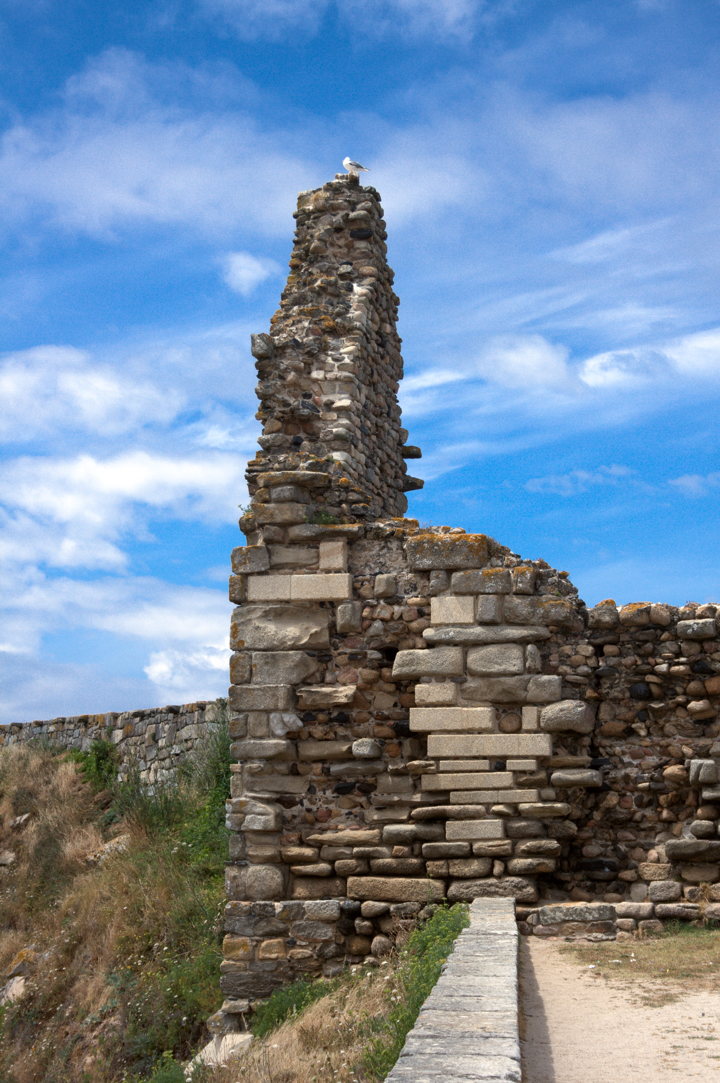 Ruins of A Lanzada Tower, Sanxenxo, Galicia (Spain).